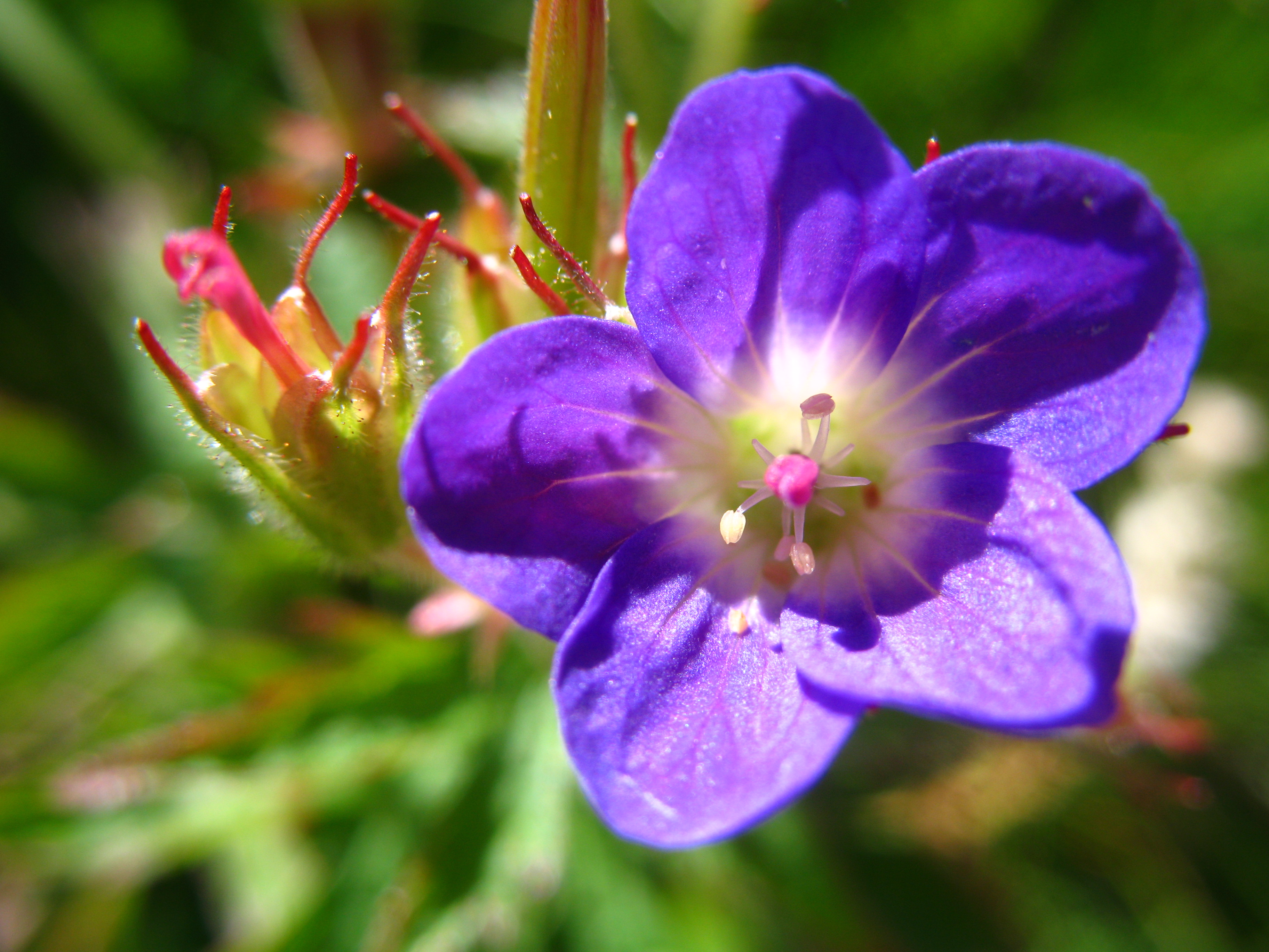 Geraniaceae, Schynige Platte, Switzerland